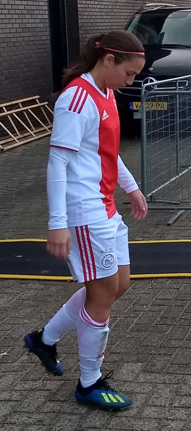 Vanity Lewerissa, 2018